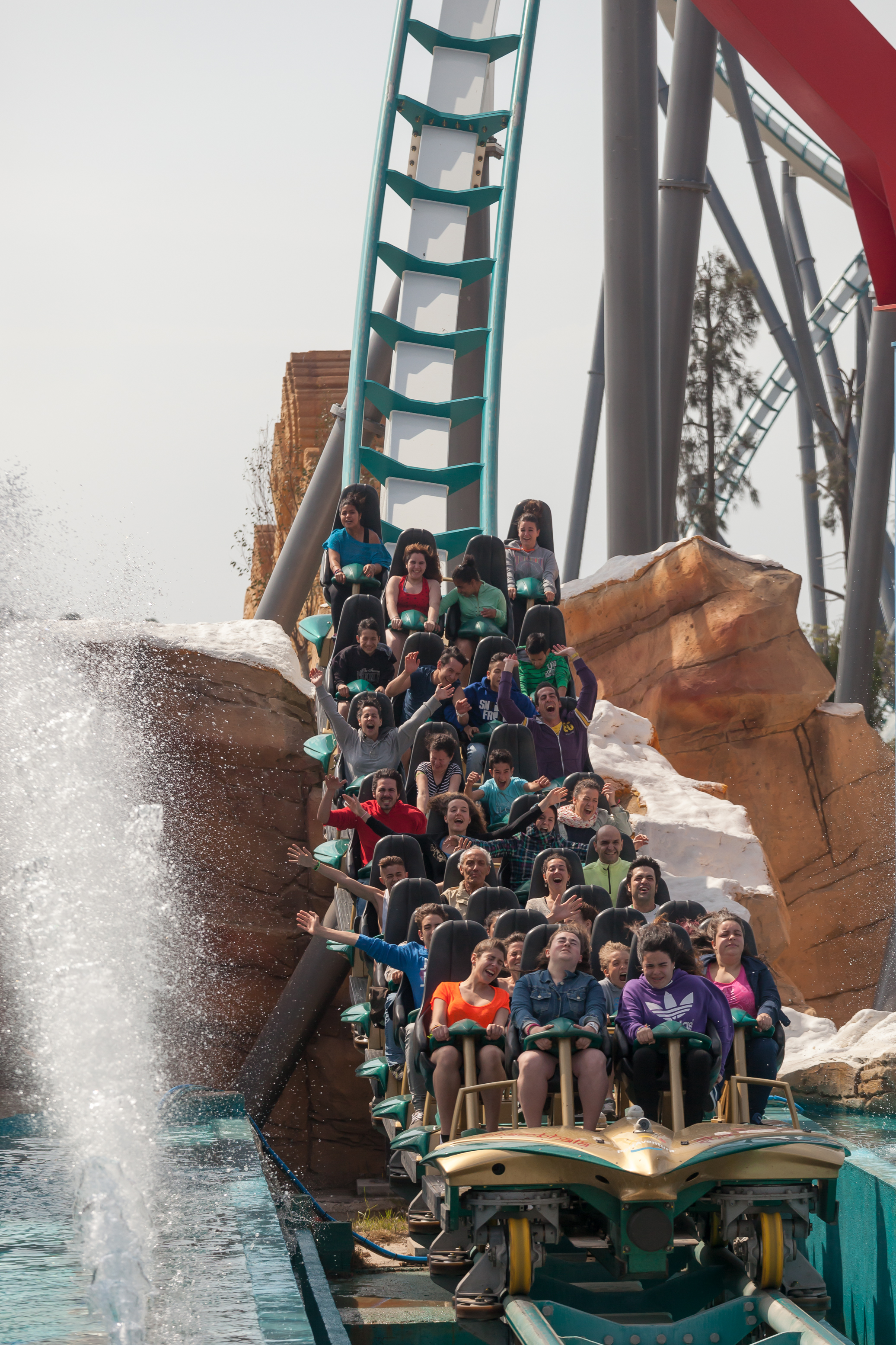 Roller coaster at PortAventura, Salou, Tarragona, Catalonia.